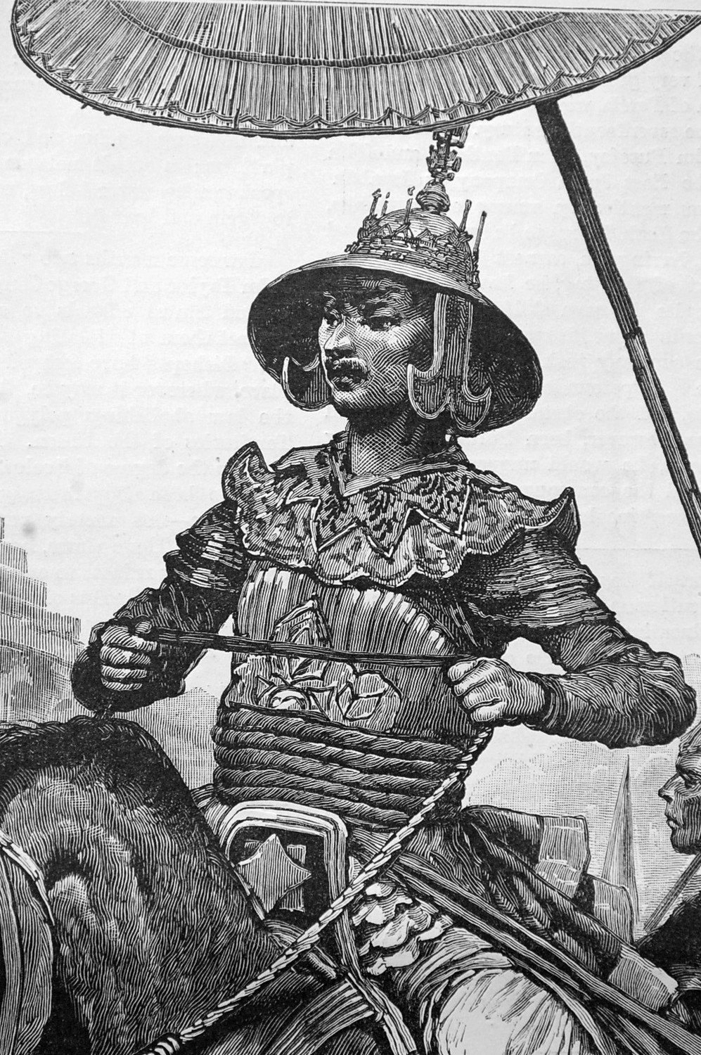 Cropped detail of Minister of State in Konbaung military uniform